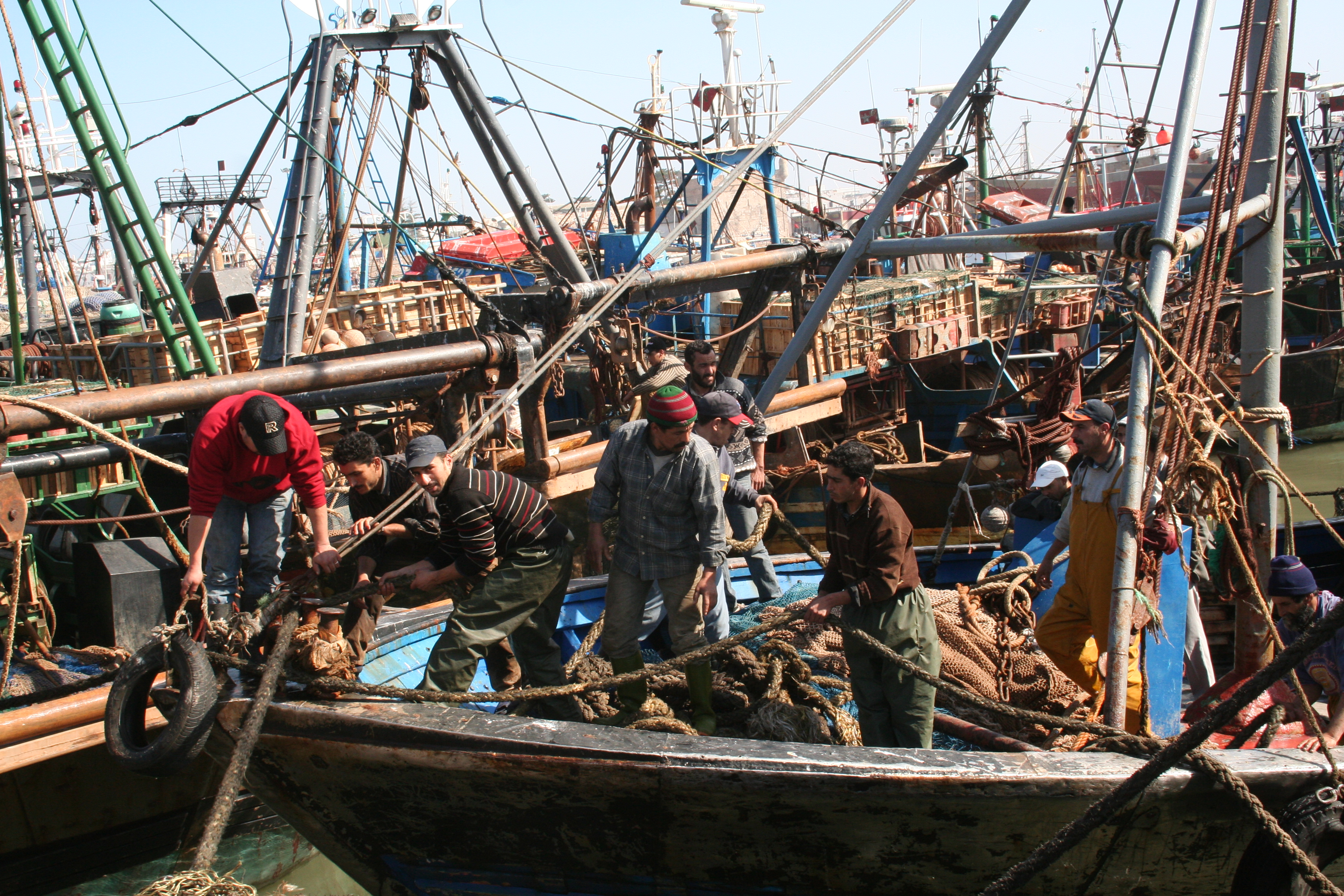 Fishing port at Essaouira, Morocco.